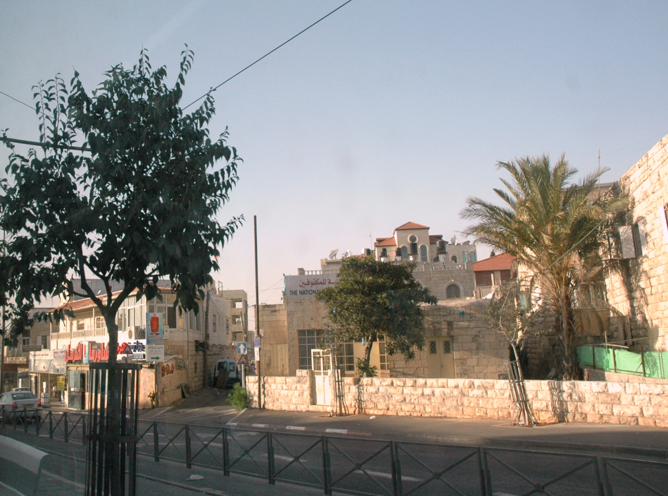 Main street of Shu'fat, Jerusalem